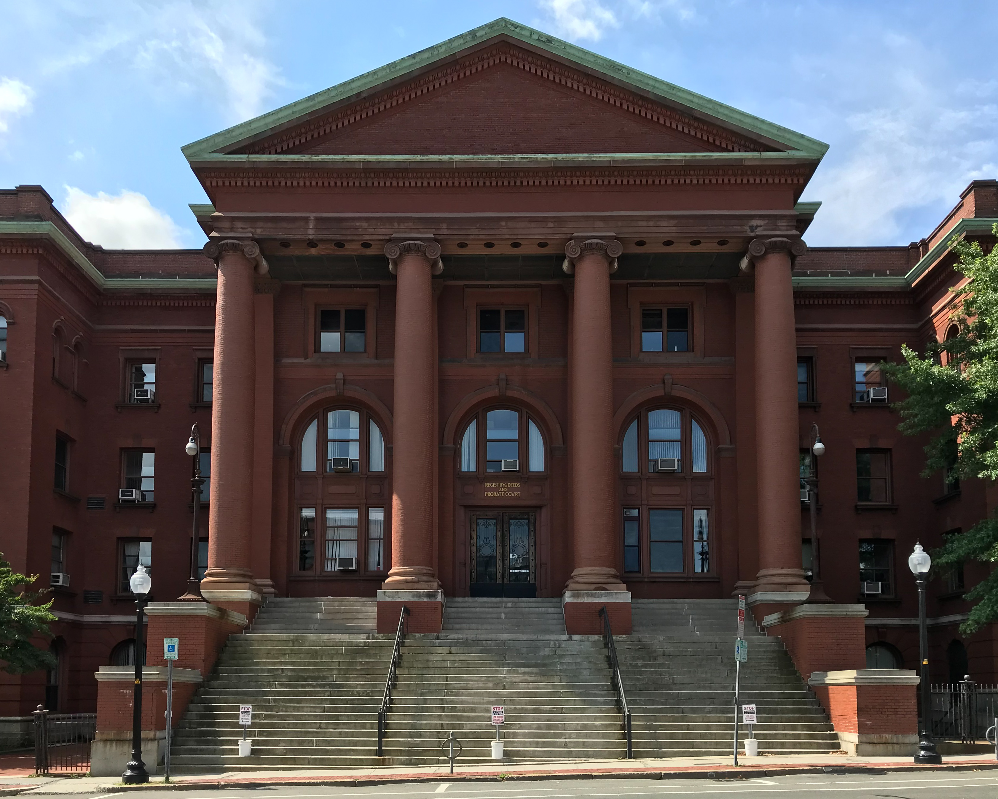 Courthouse in Cambridge, Massachusetts serving Middlesex County.